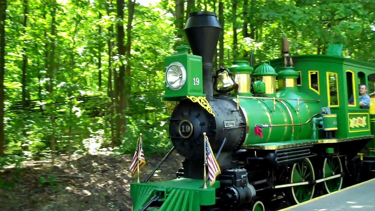 train at kings island